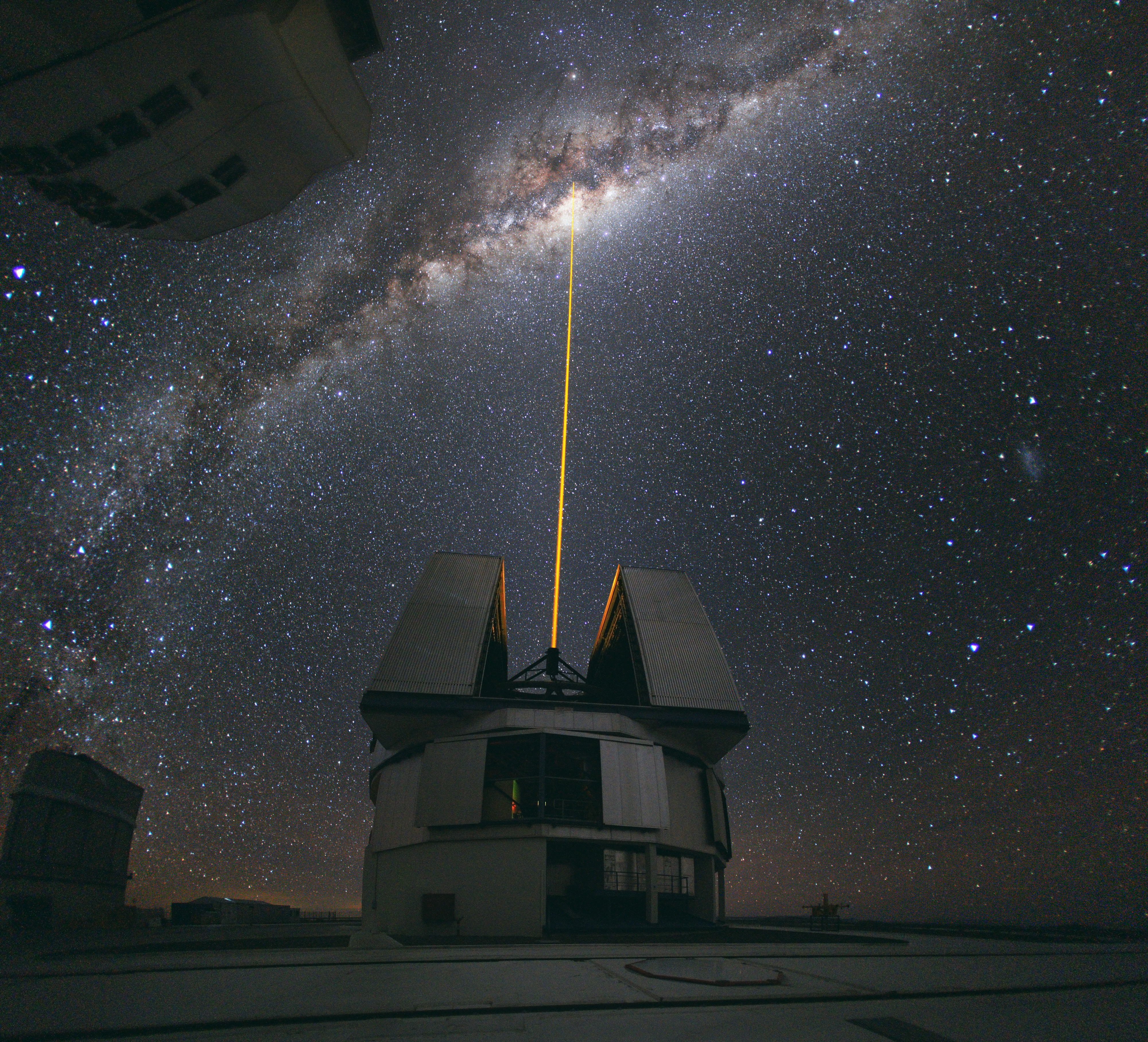 In mid-August 2010 ESO Photo Ambassador Yuri Beletsky snapped this photo at ESO’s Paranal Observatory, Chile. A group of astronomers were observing the centre of the Milky Way using the laser guide star facility at Yepun, one of the four Unit Telescopes of the Very Large Telescope (VLT). Yepun’s laser beam crosses the southern sky and creates an artificial star at an altitude of 90 km high in the Earth's mesosphere. The Laser Guide Star (LGS) is part of the VLT’s adaptive optics system and is used as a reference to correct the blurring effect of the atmosphere on images. The colour of the laser is precisely tuned to energise a layer of sodium atoms found in one of the upper layers of the atmosphere — one can recognise the familiar colour of sodium street lamps in the colour of the laser. This layer of sodium atoms is thought to be a leftover from meteorites entering the Earth’s atmosphere. When excited by the light from the laser, the atoms start glowing, forming a small bright spot that can be used as an artificial reference star for the adaptive optics. Using this technique, astronomers can obtain sharper observations. For example, when looking towards the centre of our Milky Way, researchers can better monitor the galactic core, where a central supermassive black hole, surrounded by closely orbiting stars, is swallowing gas and dust. Taken with a wide angle lens, this photo covers about 180° of the sky.